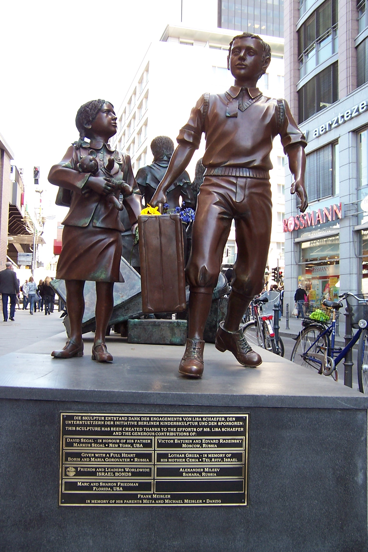 Kindertransport Memorial in front of Bahnhof Friedrichstrasse, Berlin